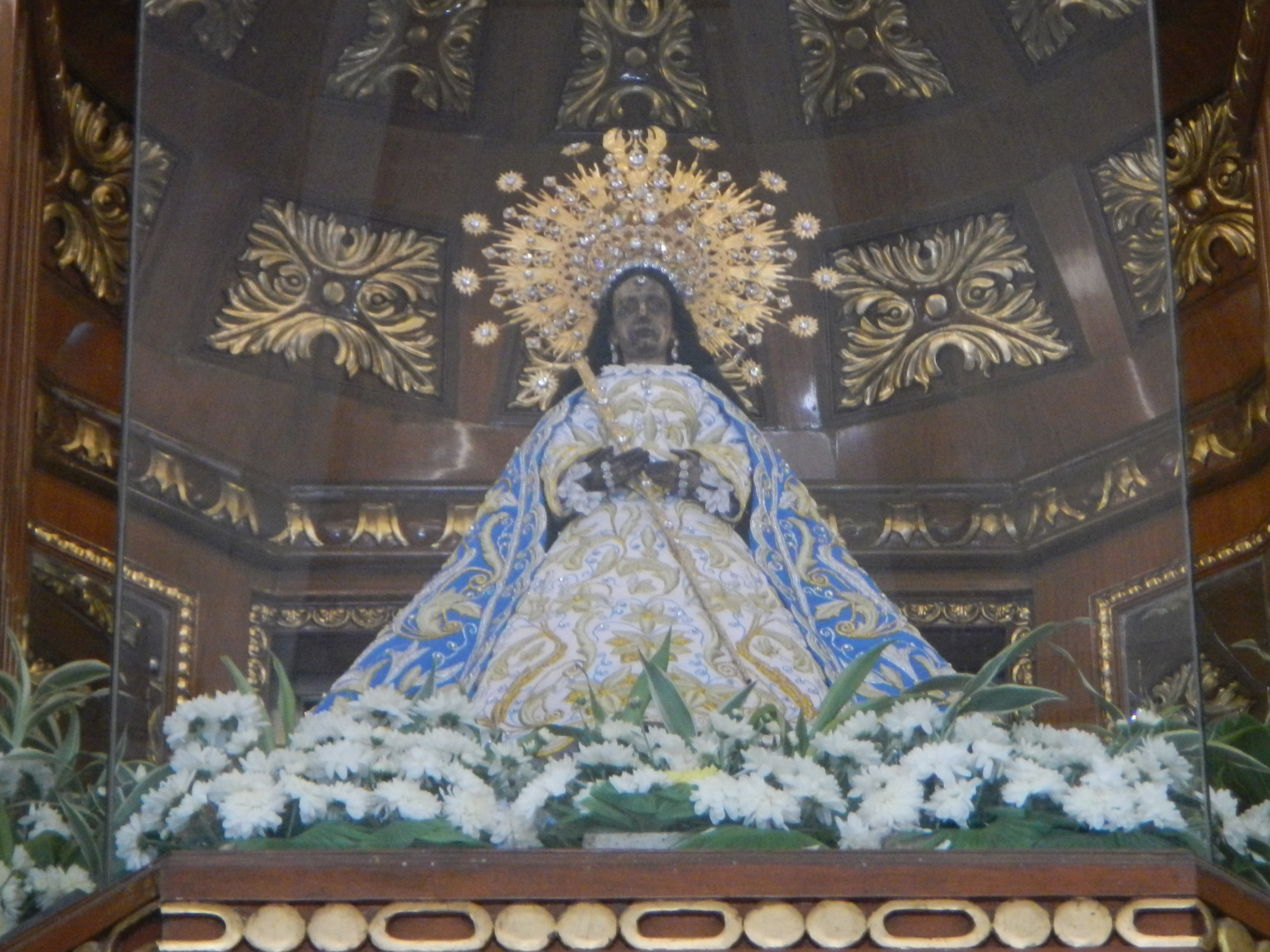 Our Lady of Peace and Good Voyage[1] (Spanish: Nuestra Señora de la Paz y Buen Viaje), Major shrine Cathedral of the Immaculate Conception of Antipoloalso known as the Virgin of Antipolo (Tagalog: Birhen ng Antipolo), is a 17th-century Roman Catholic brown wooden statue of the Blessed Virgin Mary venerated by Roman Catholics in the Philippines. The statue depicting the Immaculate Conception of Mary, is enshrined at the Antipolo Cathedral in the city of Antipolo in Rizal province.[2] Coordinates: 14°35'15"N 121°10'35"E [3] antipolo-cathedral-national-shrine-of-our-lady-of-peace-and-good-voyage/ It belongs to the Roman Catholic Diocese of Antipolo[4] - VICARIATE OF OUR LADY OF PEACE AND GOOD VOYAGE - [5] Antipolo (officially: City of Antipolo, Filipino: Lungsod ng Antipolo) is a city in the Philippines located in the province of Rizal; about 25 kilometres (16 mi) east of Manila. It is the largest city in the CALABARZON Region. It is also the seventh most populous city in the country with a population of 633,971 in 2007. Antipolo local elections, 2013[6] --- This place is situated in Rizal, Region 4, Philippines, its geographical coordinates are 14° 35' 11" North, 121° 10' 31" East and its original name (with diacritics) is Antipolo. Fire hits Antipolo City library, Comelec field office May 24, 2013 Ynares proclaimed next Mayor of Antipolo City Governor Casimiro “Jun” Ynares III was proclaimed the next Mayor of Antipolo City over re-electionist Nilo Leyble.